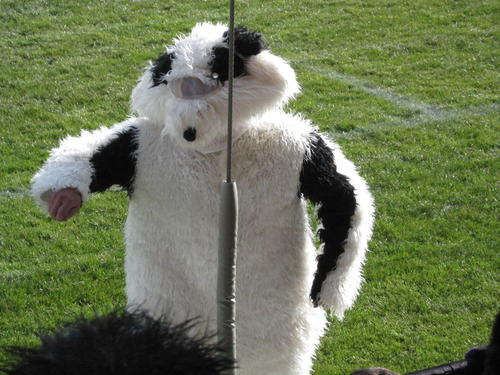 Chamito